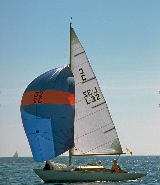 A Finnish C-class sailboat